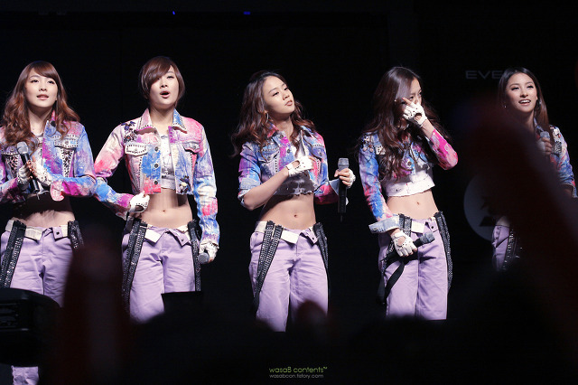 Kara at EVER Starleague 2009.